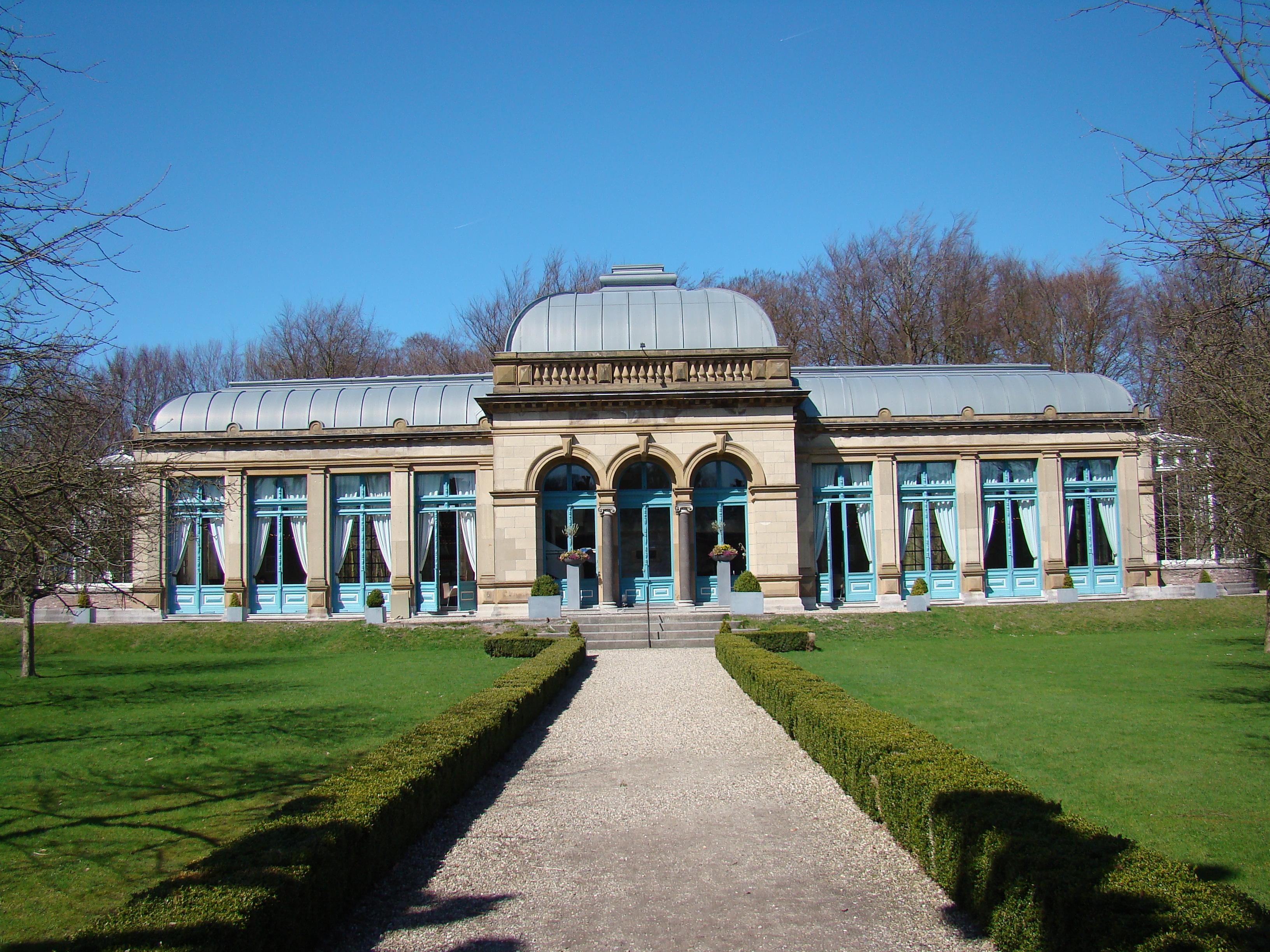 Impressions of Estate Elswoud near Overveen, county Bloemendaal, Netherlands